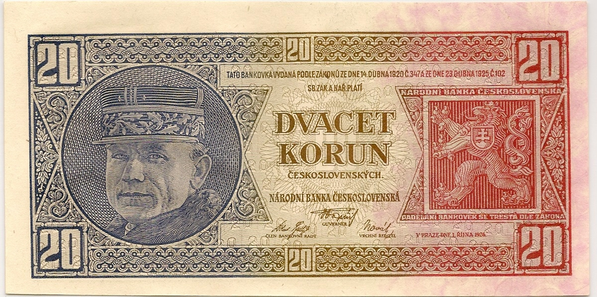 This image is the obverse of a 1926 20 Korun note (P-21) designed by Alois Mudruňka (1888-1956) and issued by the Czechoslovak National Bank.